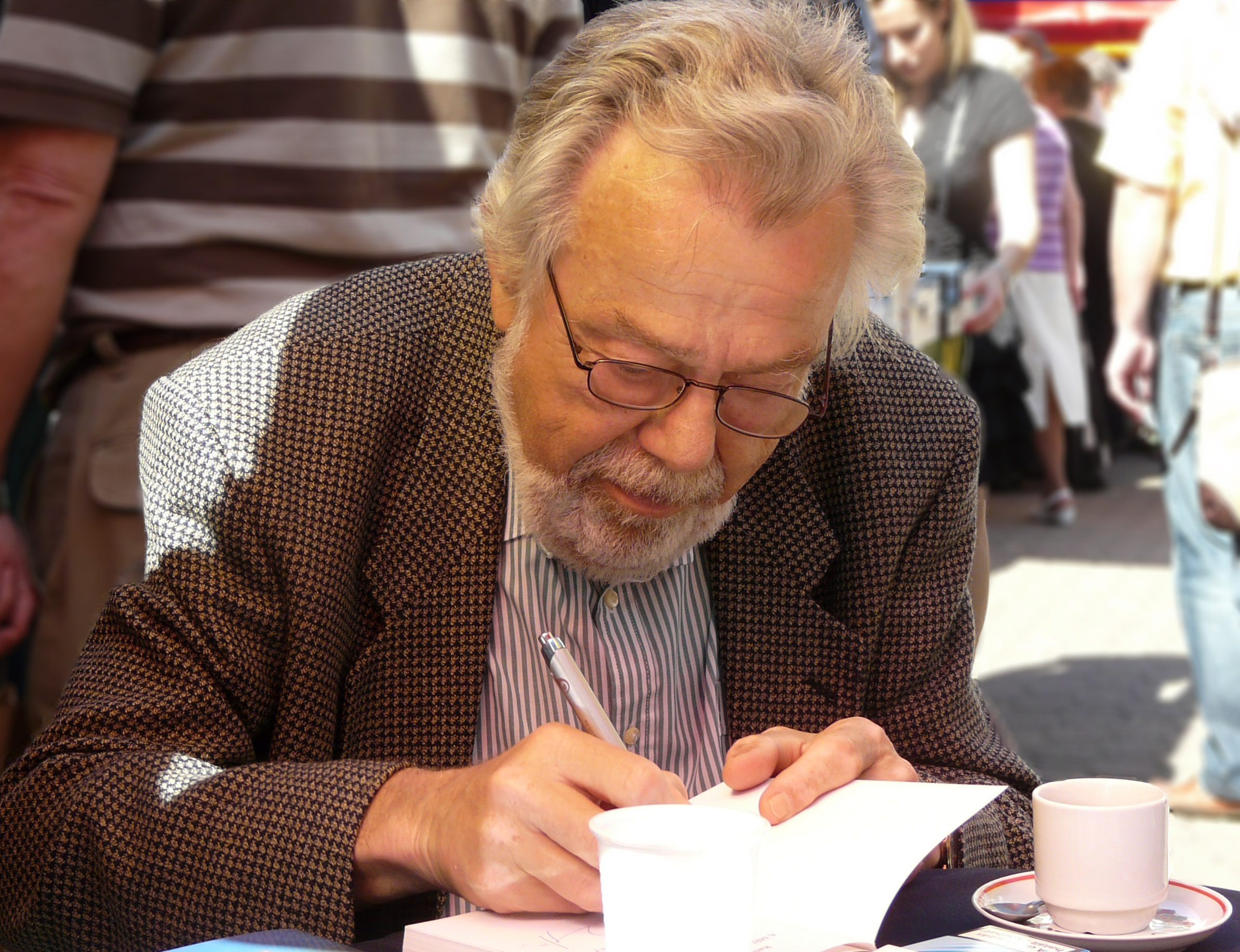 Jenő Ranschburg psychologist, famed book author at a book signing, Juin 2010.